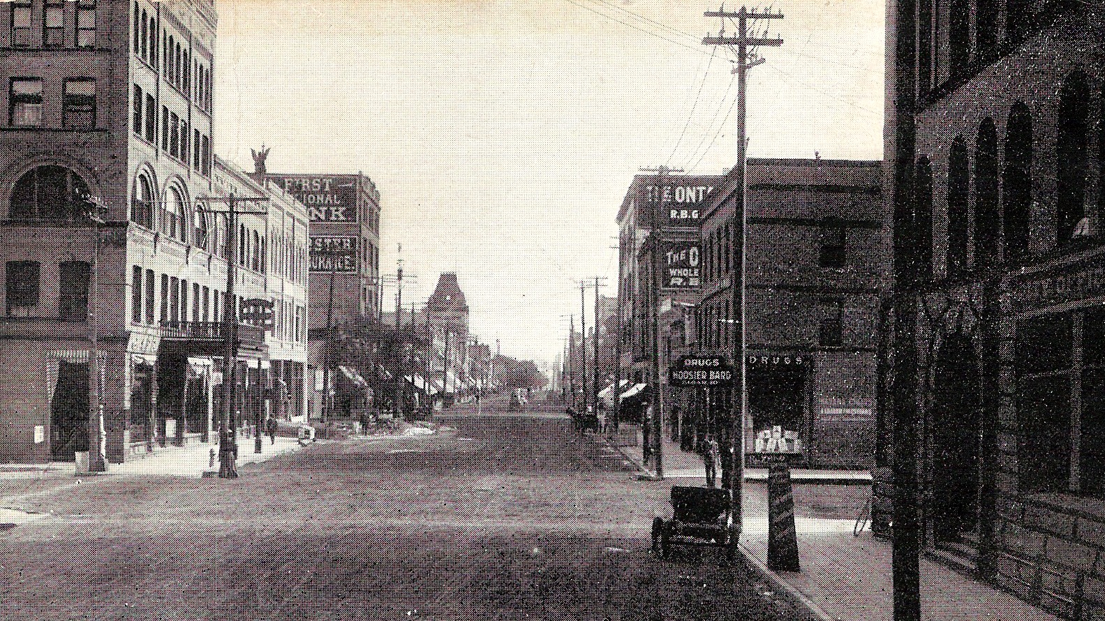 Looking towards the south on Third Street in downtown Grand Forks, North Dakota circa 1909. The old Security Building is on the right side of the image and the old Frederick Hotel and St. John's Block are on the left.